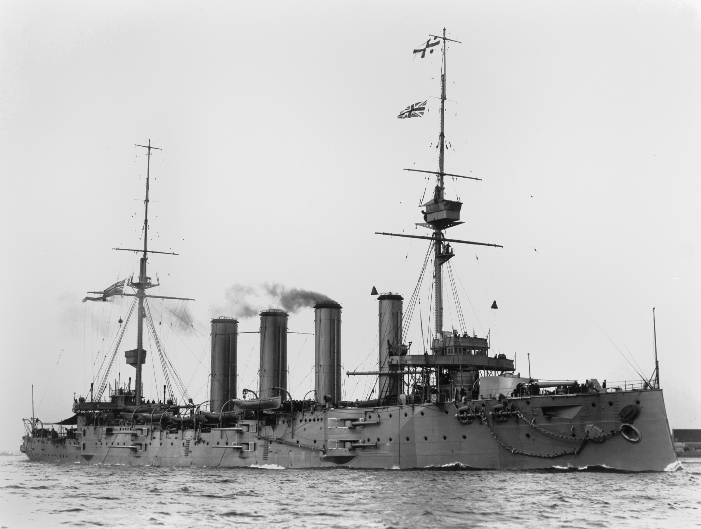 British Ships of the First World War HMS GOOD HOPE. She and her squadron were sunk by Vice-Admiral Von Spee's cruisers SCHARNHORST and GNEISENAU at the Battle of Coronel on 1 November 1914.